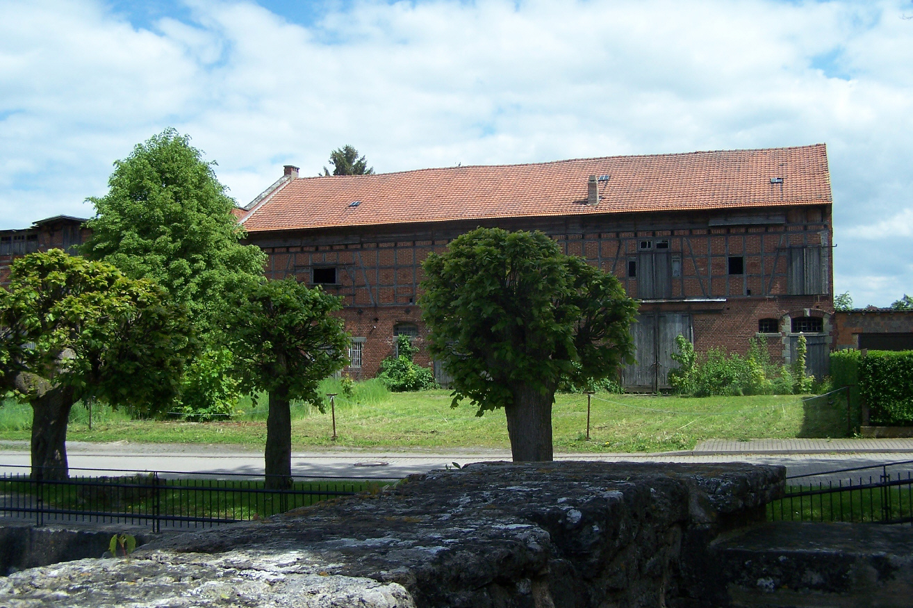 The access yard in Berka vor dem Hainich.